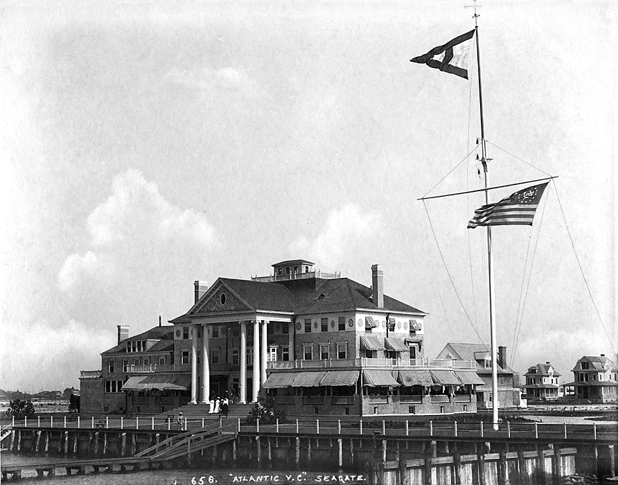 Clubhouse of the Atlantic Yacht Club in Sea Gate community of Coney Island, Brooklyn, NY, as it appeared in the 1890s.